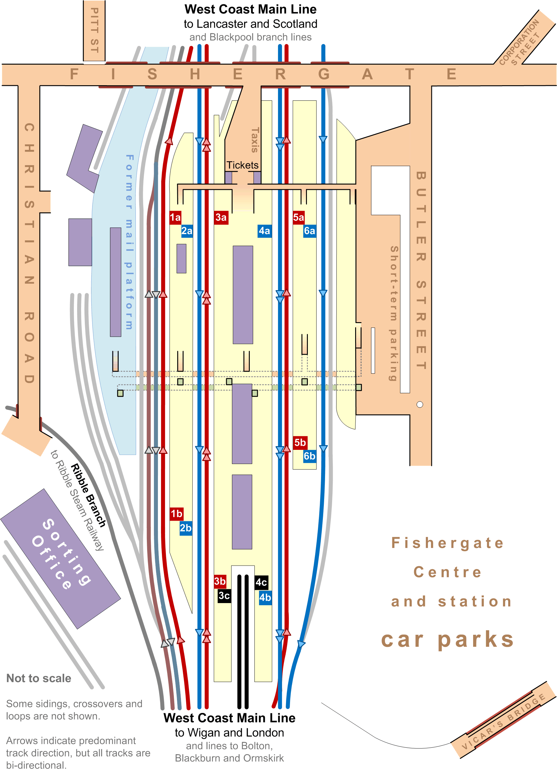 Layout of Preston railway station, Lancashire, England, in 2008.